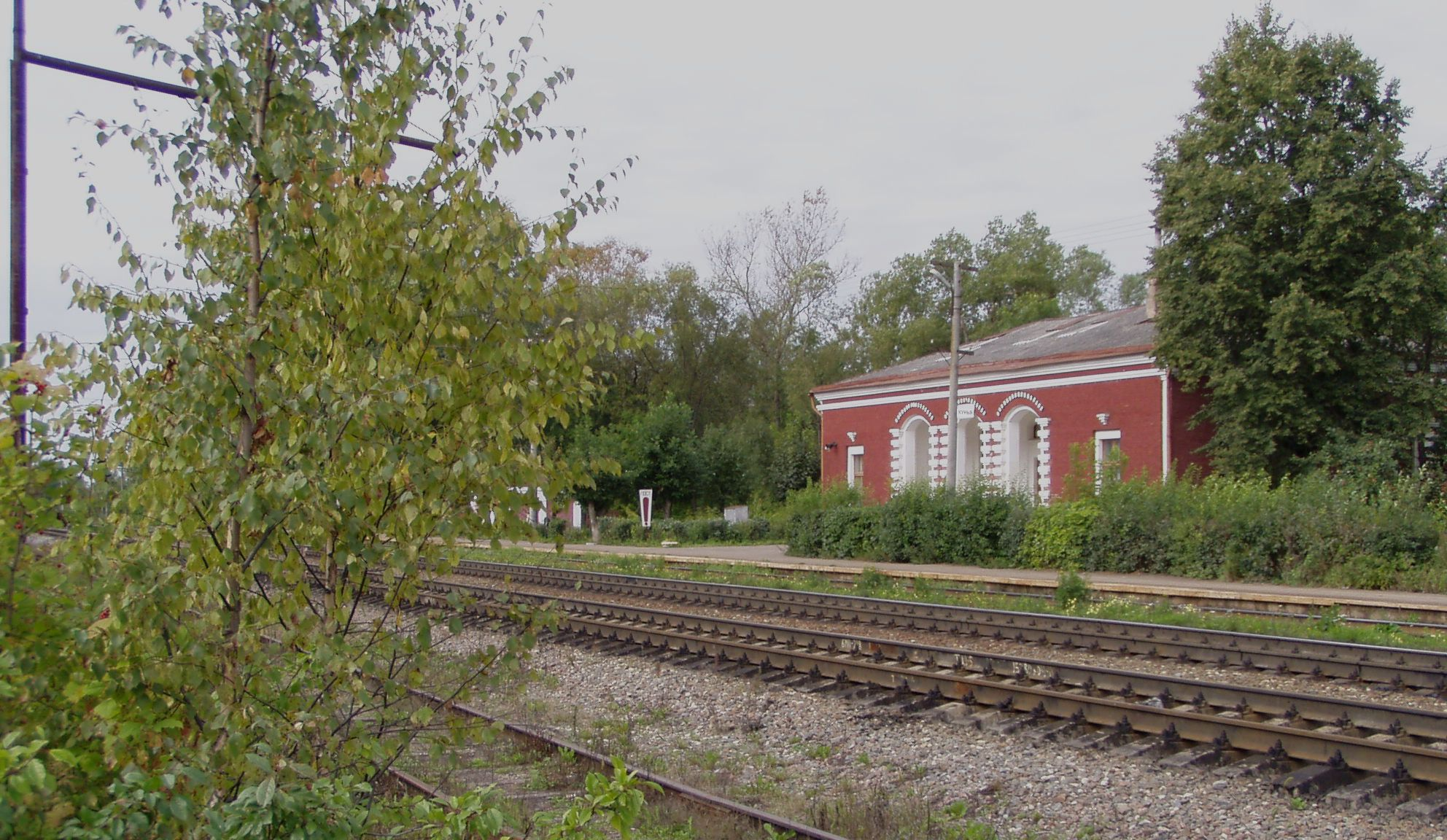 The railway station of Kunya, Moscow—Riga railroad. Station's name КУНЬЯ on a white table is placed via photomontage.